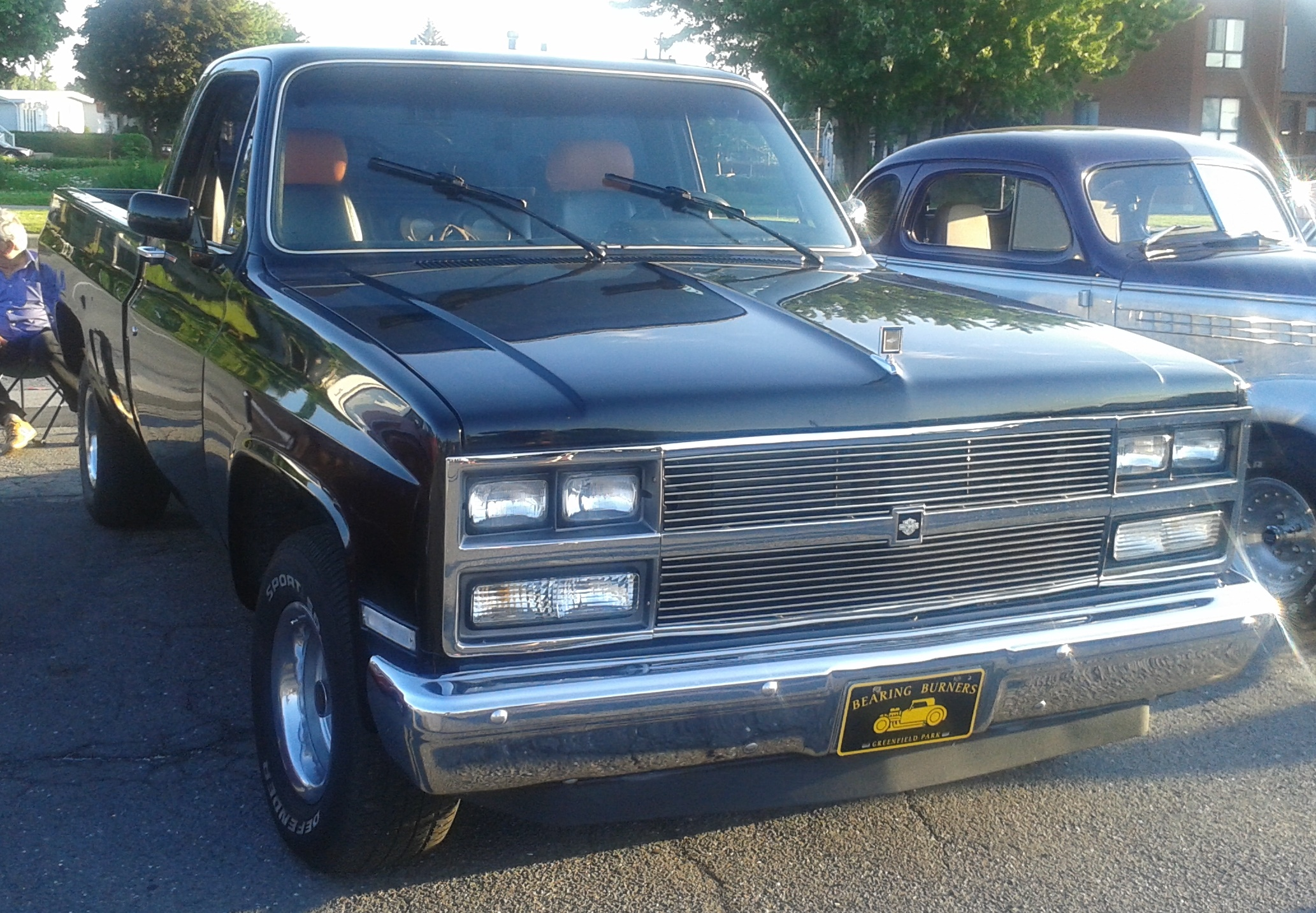 Chevrolet C/K photographed at the 2014 Combos cruise night in Brossard, Quebec, Canada.